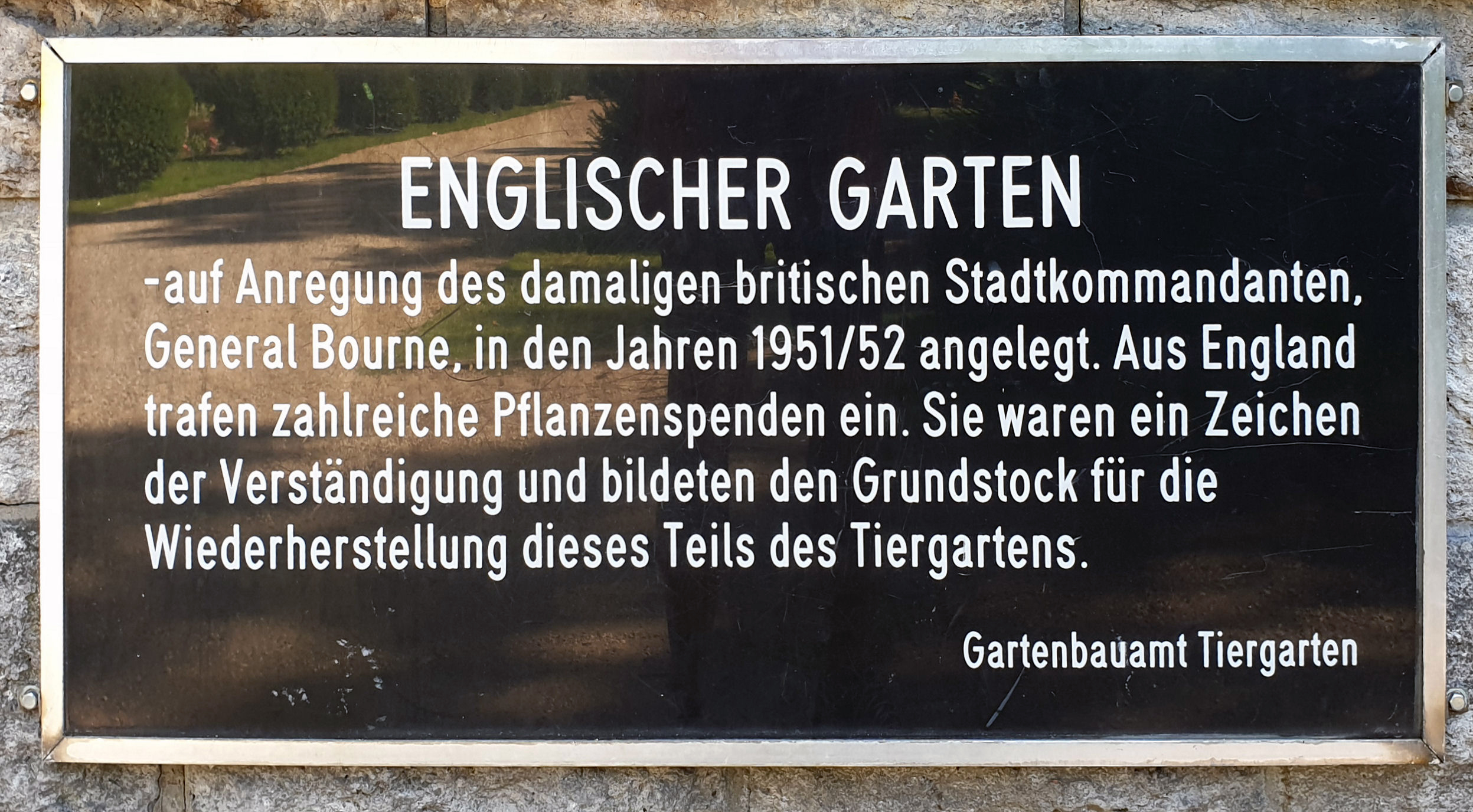 Memorial plaque, Englischer Garten, Altonaer Straße 2, Berlin-Tiergarten, Germany